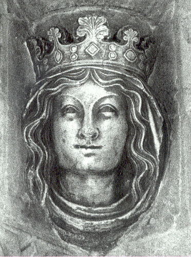 Head of Eleanor of Provence in Westminster Abbey.